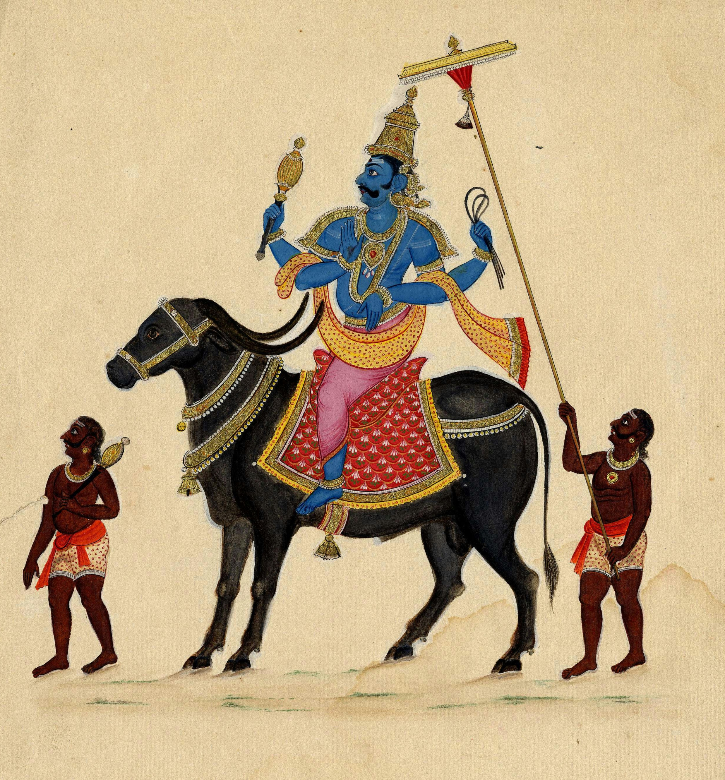 "Painting of the dikpala Yama. He is depicted blue-skinned, four-armed and seated on his vahana, the buffalo. In his upper two hands he holds a mace (right) and lasso (left). His lower hands are held in varadamudra (right) and abhayamudra (right). In front, walks an attendant carrying a mace while behind comes another attendant with a parasol held above the god. An element of perspective is suggested by the lightly sketched-in foreground. On laid European paper watermarked with an armorial design."